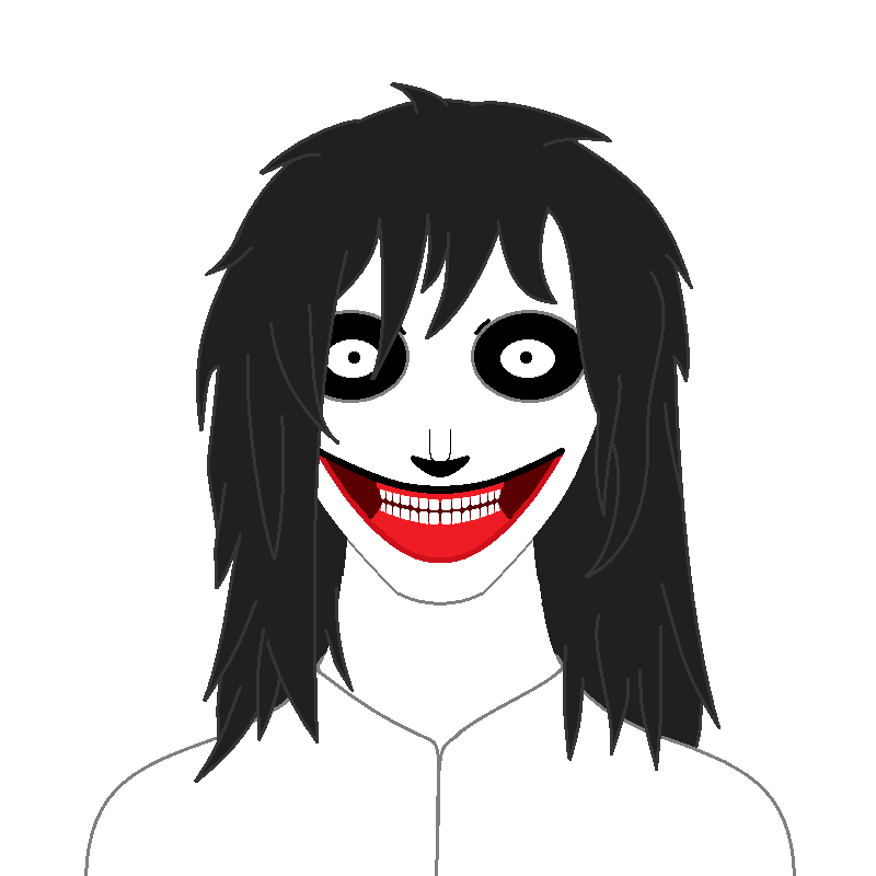 Face of Jeff the killer.